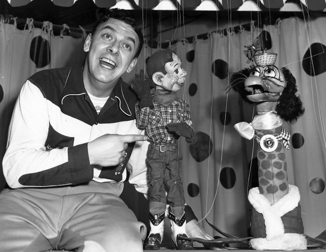 Photo of Buffalo Bob Smith with Howdy Doody and Flub a Dub from the children's television progam Howdy Doody.